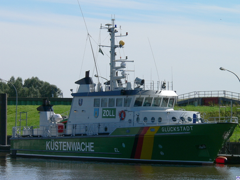 German coastguard and customs patrol boat "Glückstadt", Glückstadt 3.9.2005 IMO Number: 9015931 MMSI Number: Callsign: DLVF Length: 32 m Beam: 6.5 m